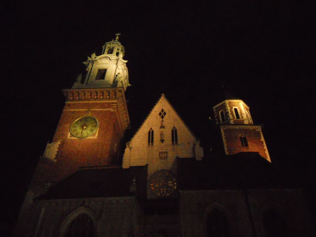 Wawel Cathedral in Kraków, night.